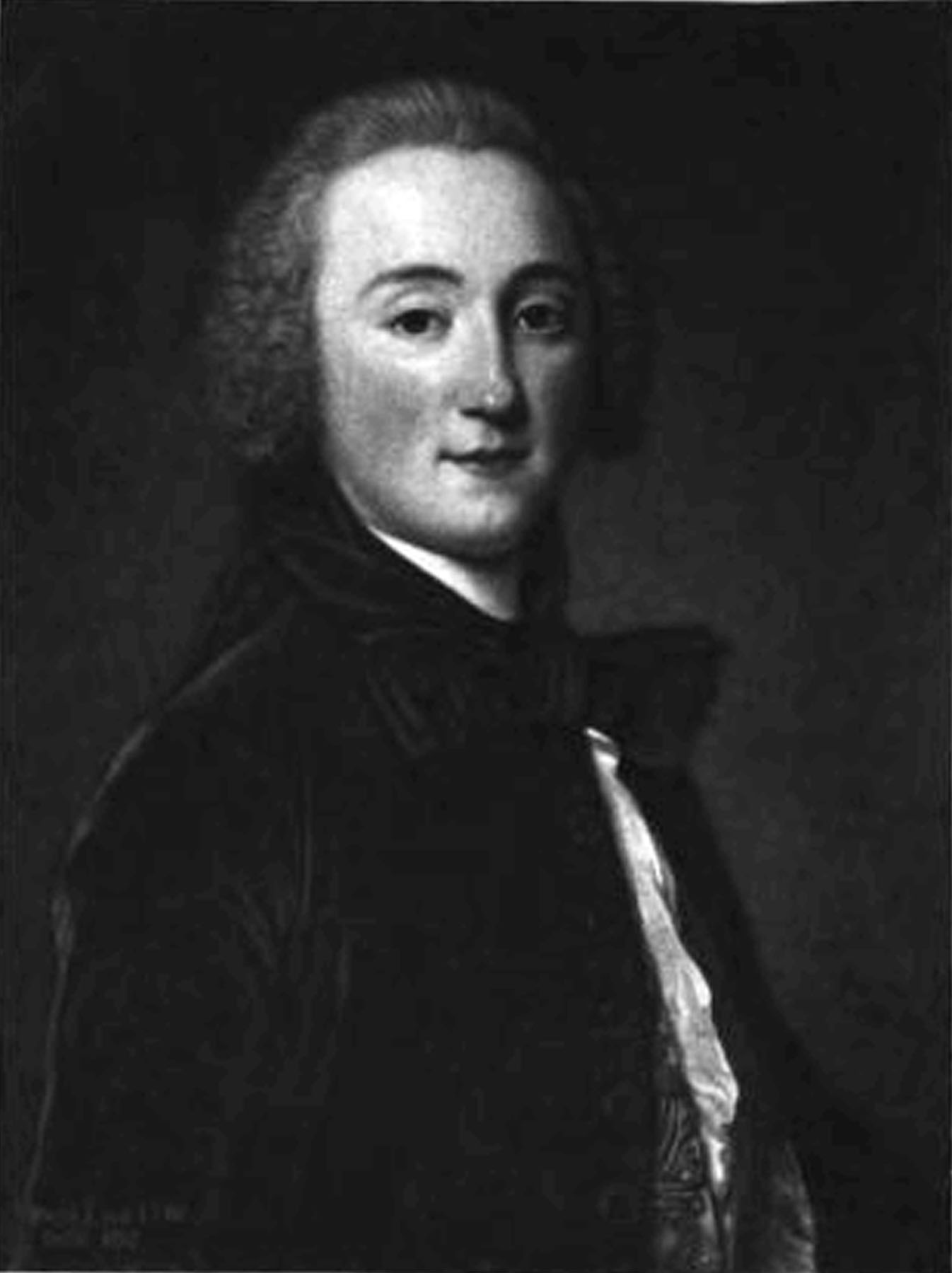 David Wemyss, Lord Elcho (1741)